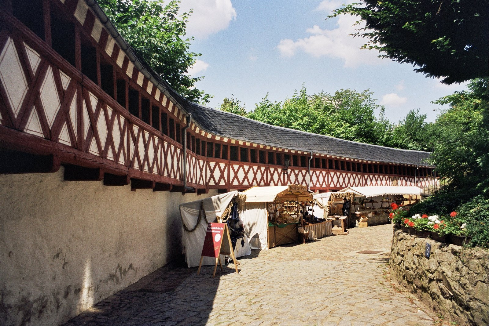 Rochsburg Castle - battlement parapet